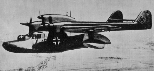 A German Blohm & Voss Bv 138 reconnaissance flying-boat, 1937. The Blohm + Voss BV 138 was a World War II German flying boat that functioned as the Luftwaffe's main long-range maritime reconnaissance.